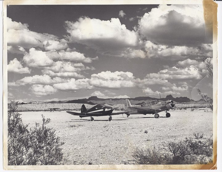 Picture of the Bullhead Airport (circa 1940's)